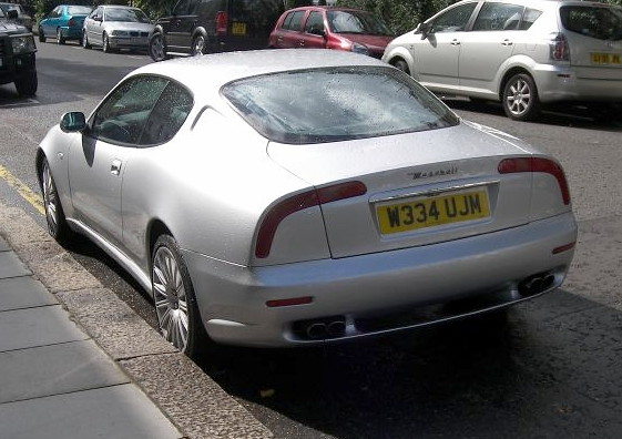 1999 Maserati 3200 GT silver rearmaserati